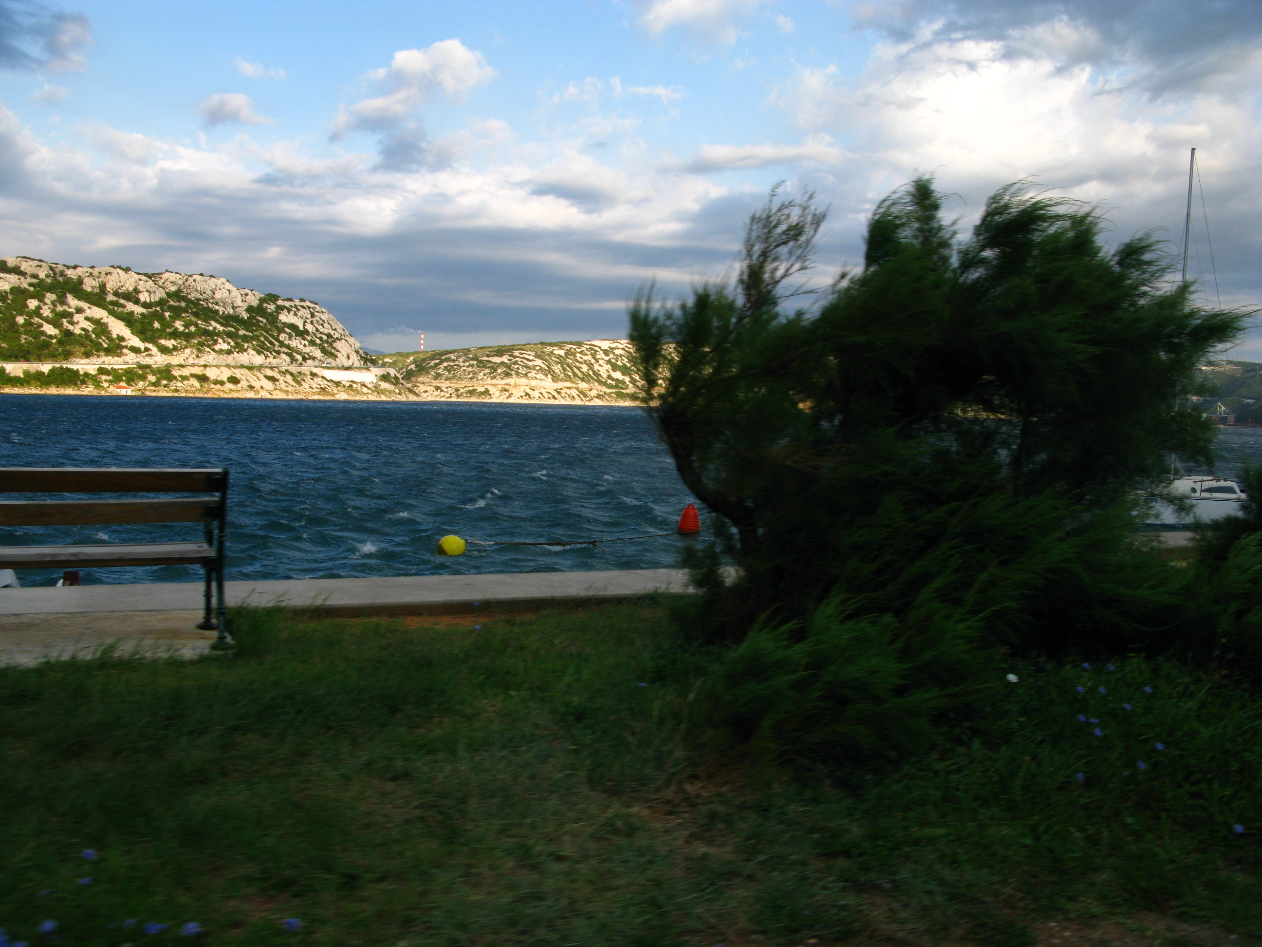 Bay of Bakar / Croatia / Adriatic Sea.